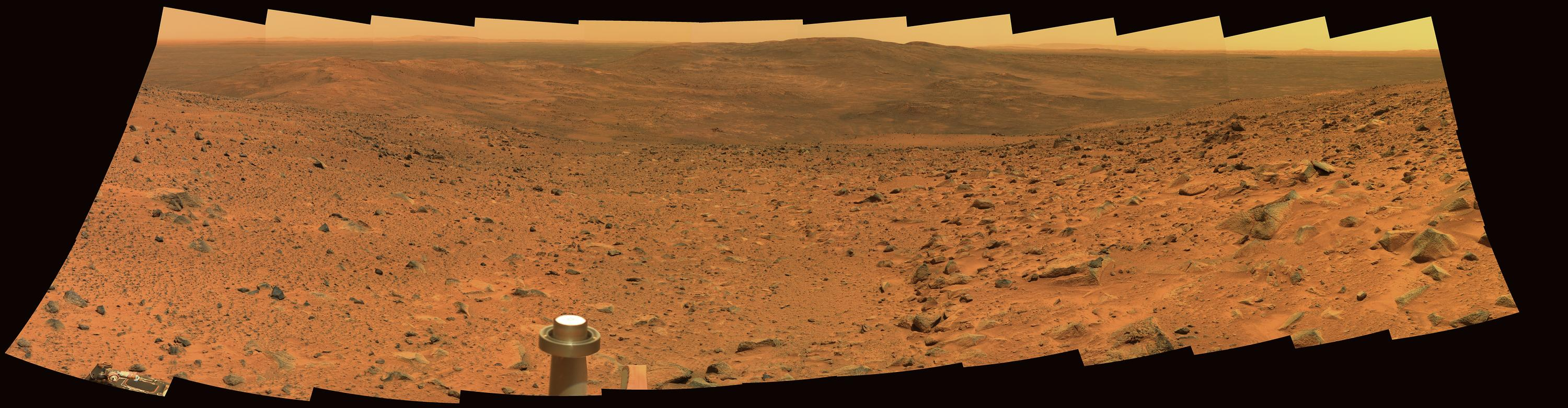 Approximate true color view looking southward from the summit of Husband Hill, taken by the Spirit rover. Home Plate is the pentagonal feature at the upper center. McCool Hill is the hill that dominates the picture.